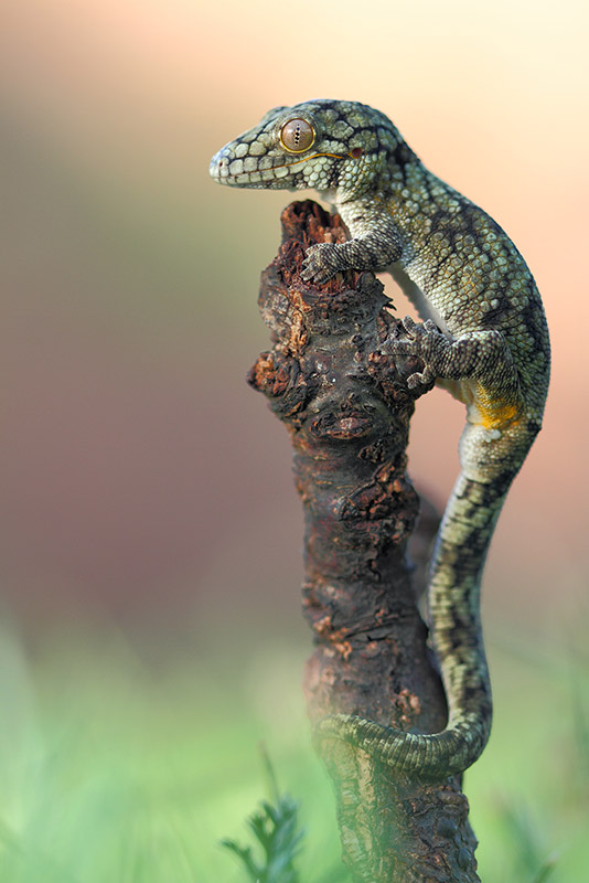 Bavay's Gecko Eurydactylodes vieillardi (Adult Male)